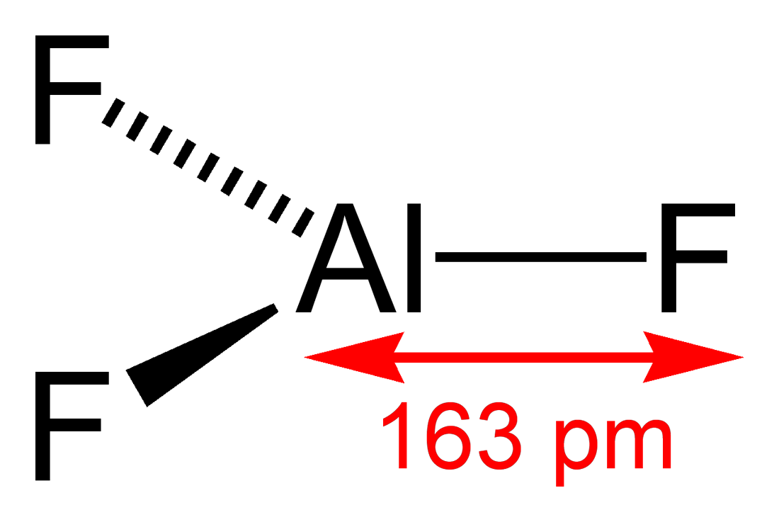 Aluminium-trifluoride-monomer-2D-dimensions